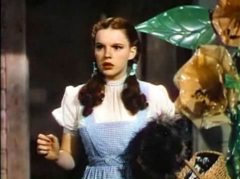 Screenshot of Judy Garland from the trailer for the film The Wizard of Oz.